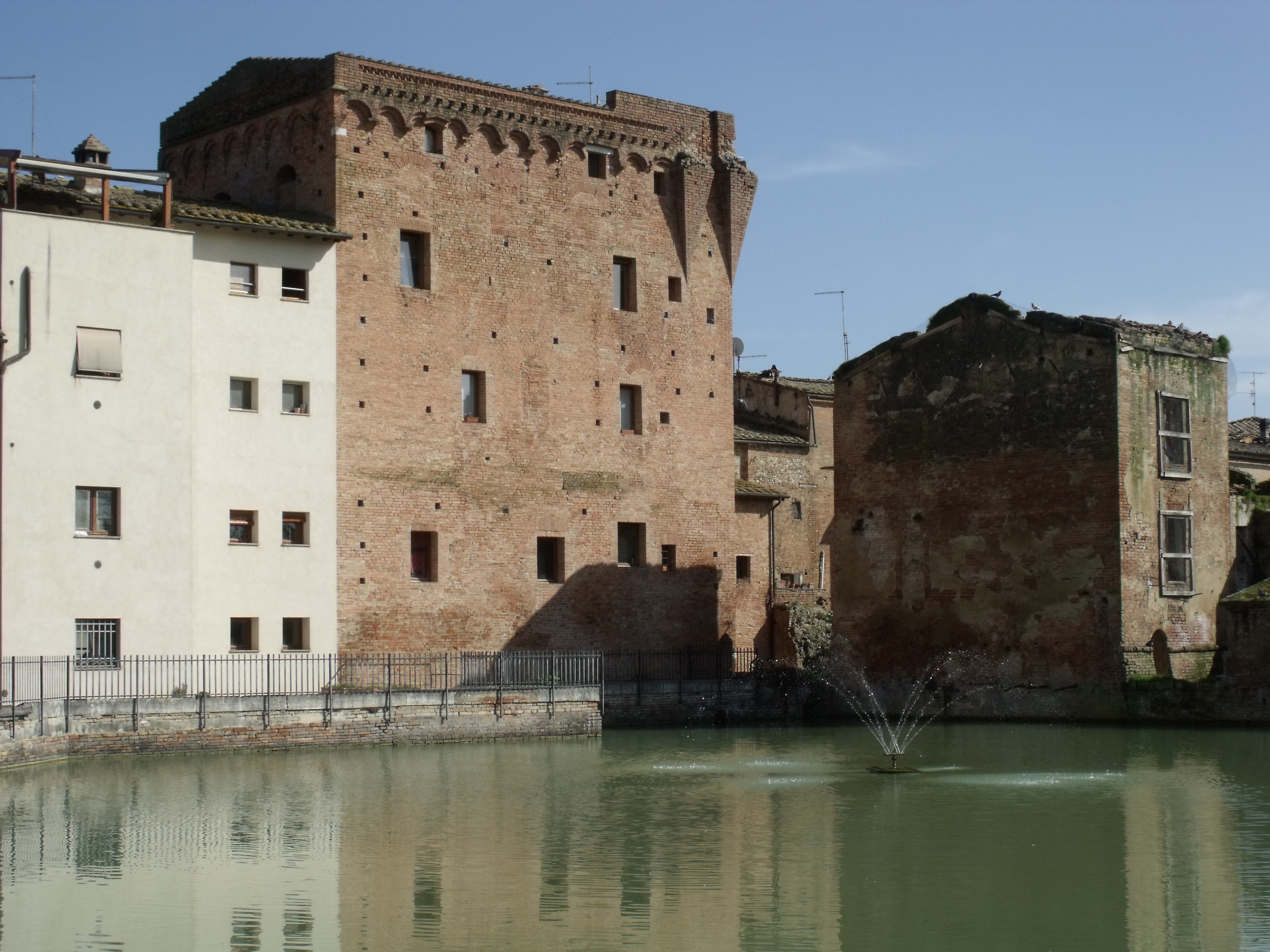 Ancient Mill of Santa Maria della Scala Siena in the city center of Monteroni d’Arbia, Province of Siena, Tuscany, Italy